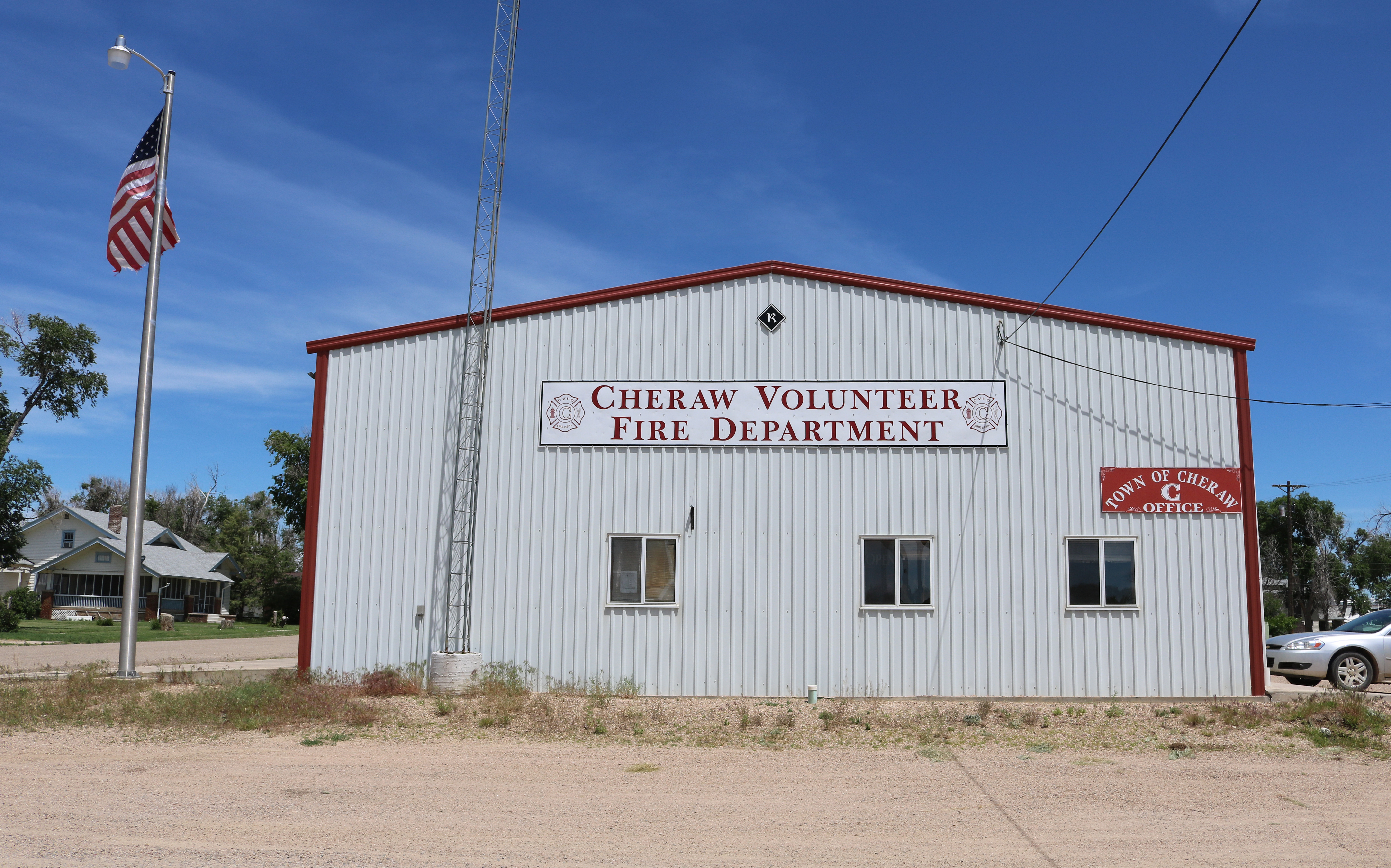 The volunteer fire department and town office of Cheraw, Colorado, located at 220 Railroad Avenue in Cheraw, Colorado.